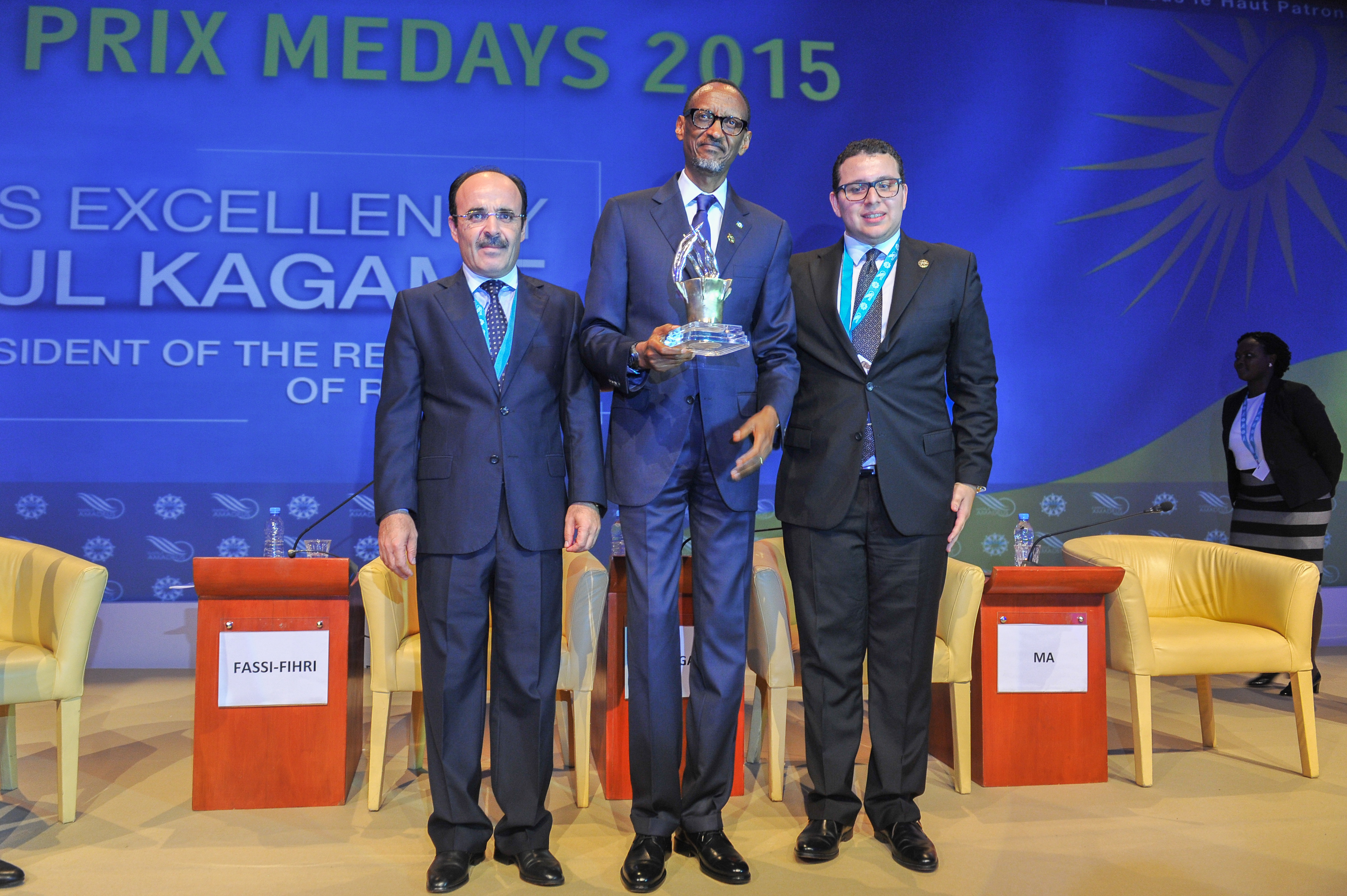 Paul Kagamé reçoit le Grand Prix MEDays 2015